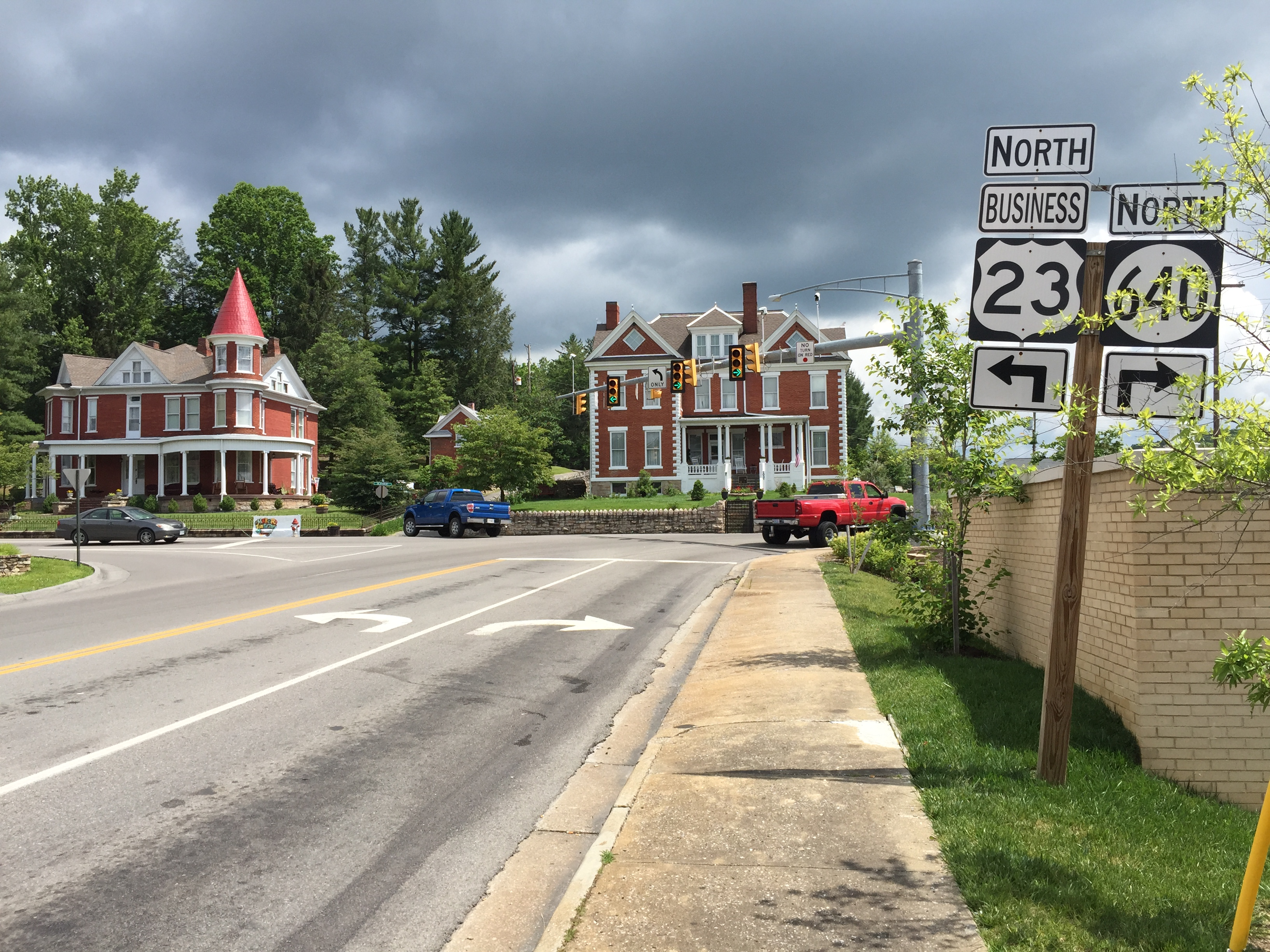 View north along U.S. Route 23 Business (Norton Road) at Main Street (Virginia State Secondary Route 640) in Wise, Wise County, Virginia